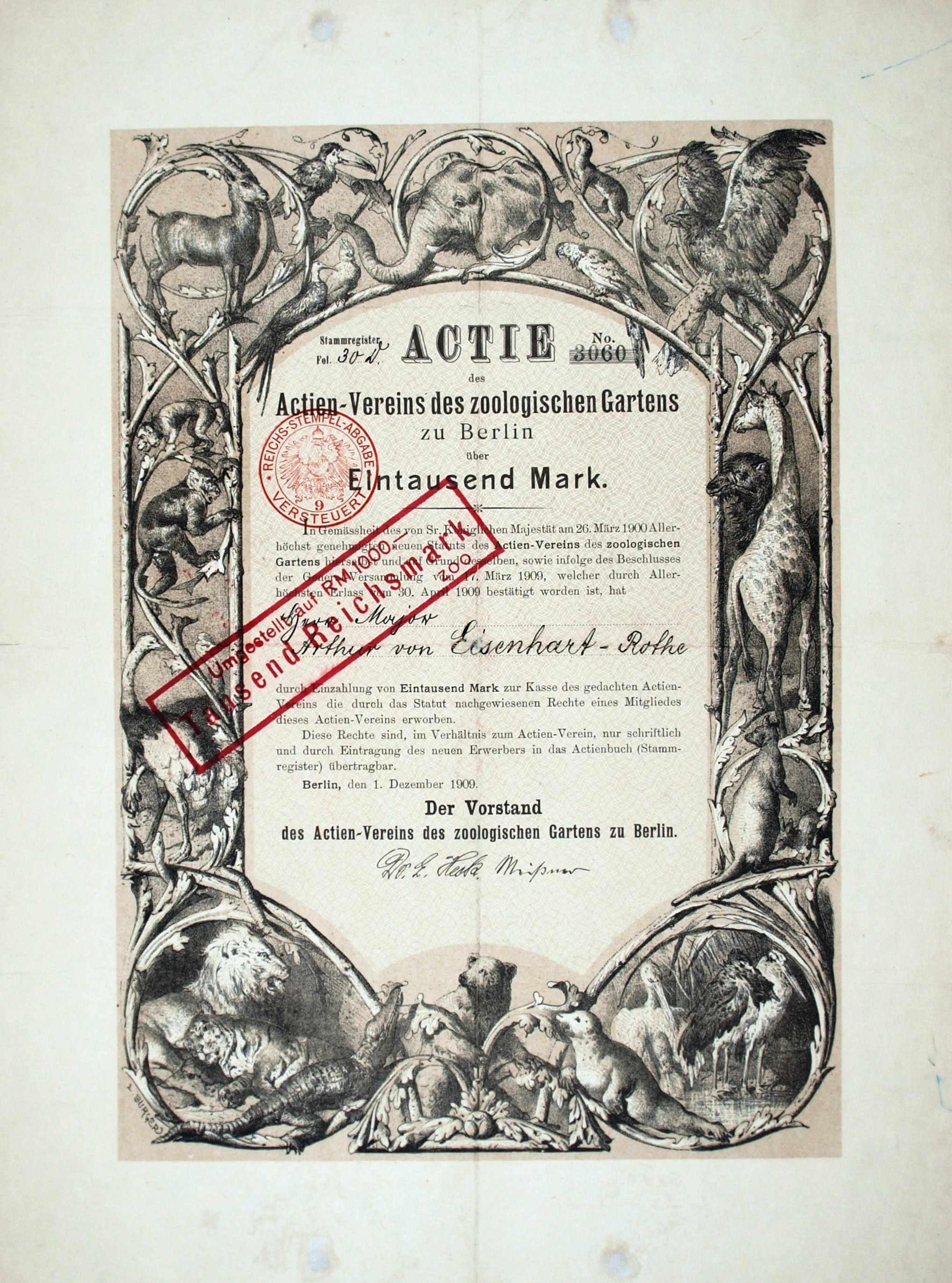 Share of the Actien-Verein des zoologischen Gartens zu Berlin, issued 1. December 1909